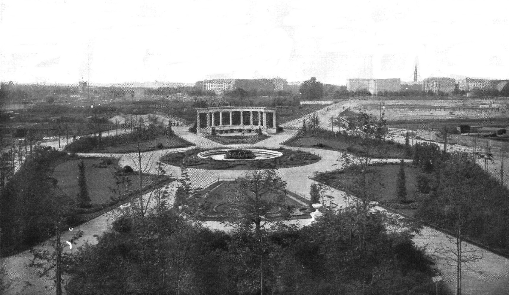 The Viktoria Luise Square in Berlin-Schöneberg in the year construction was completed.